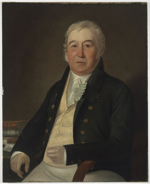 Portrait of Robert Townson, English natural historian and traveller, who in 1806 emigrated to New South Wales. Contents [hide] 1 Early life 2 European travels 3 Australia 4 Works 5 Notes